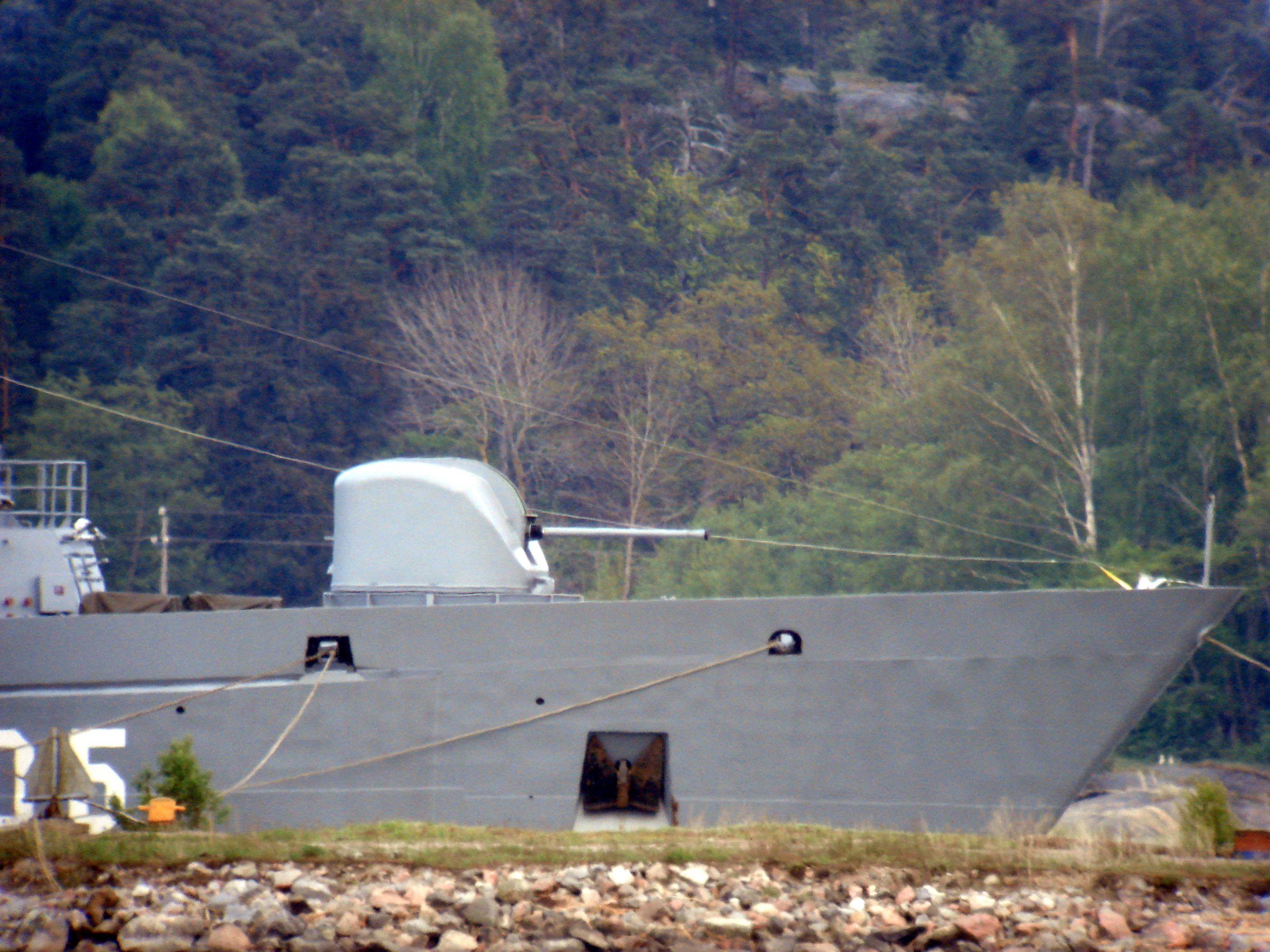 Hämeenmaa class minelayer FNS Uusimaa Bofors 57 mm gun, at Archipelago Sea Naval Command, Turku, Finland. Digiscoped with Swarovski ATS 80 HD + 20-60x zoom.